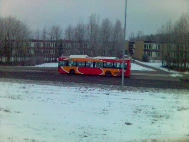 Volvo B10L CNG (biogas) bus in Linköping, Sweden. Foto:sv:Användare:Lavas.